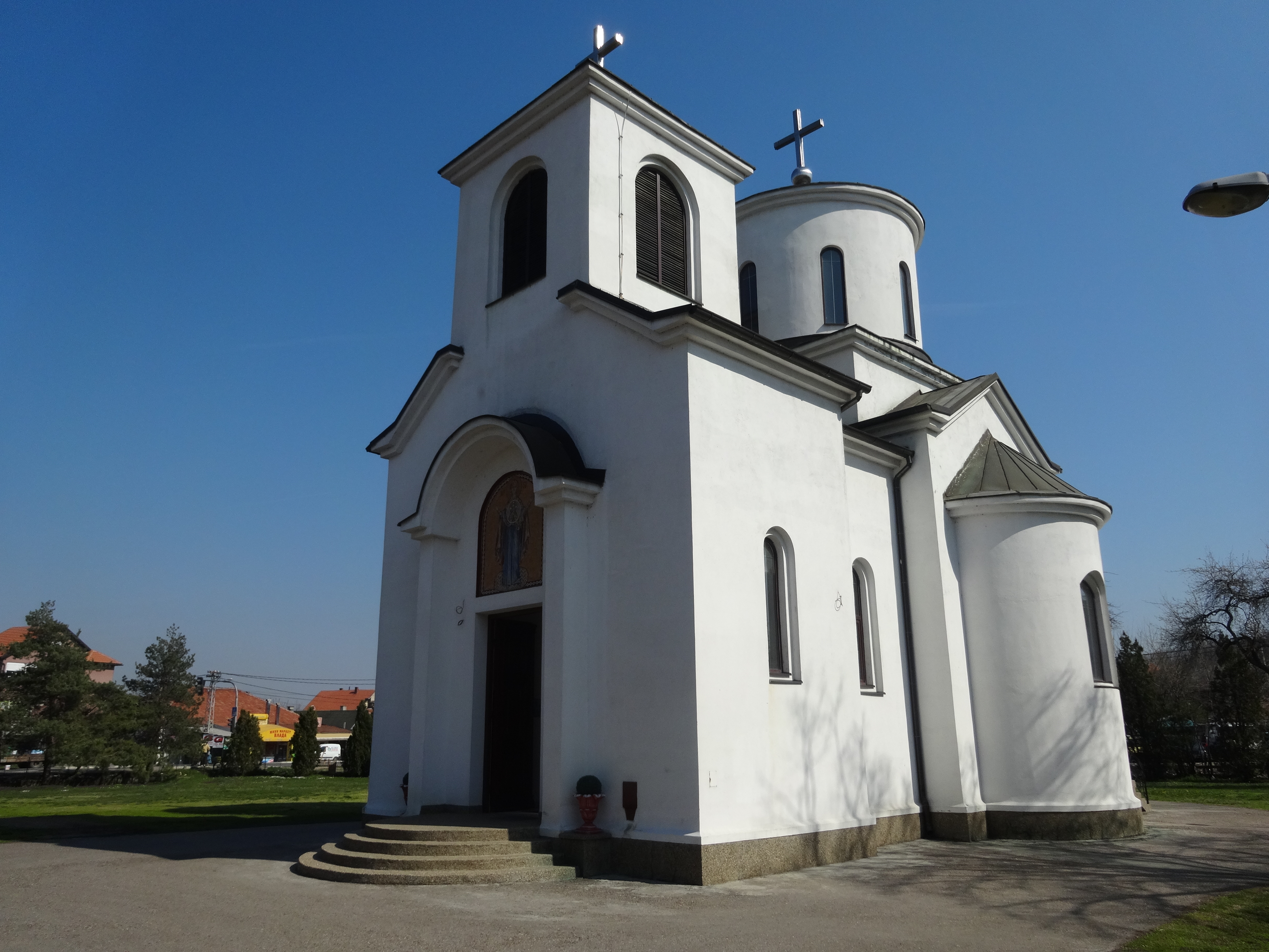 Barič, Church of Saint Michael Српски (ћирилица): Барич, Црква светог архангела Михаила